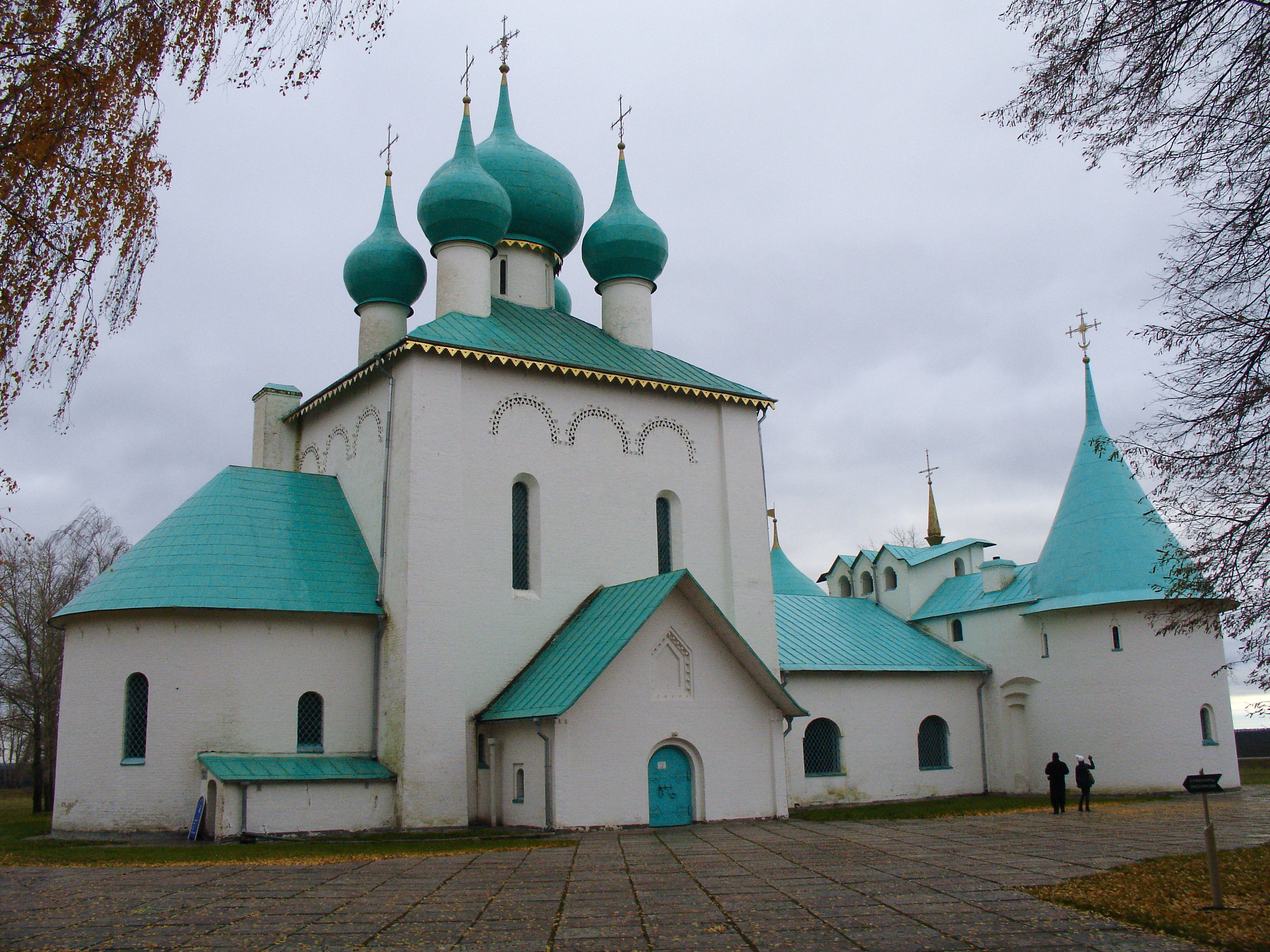 Temple-memorial of Sergius of Radonezh at Kulikovo Field.